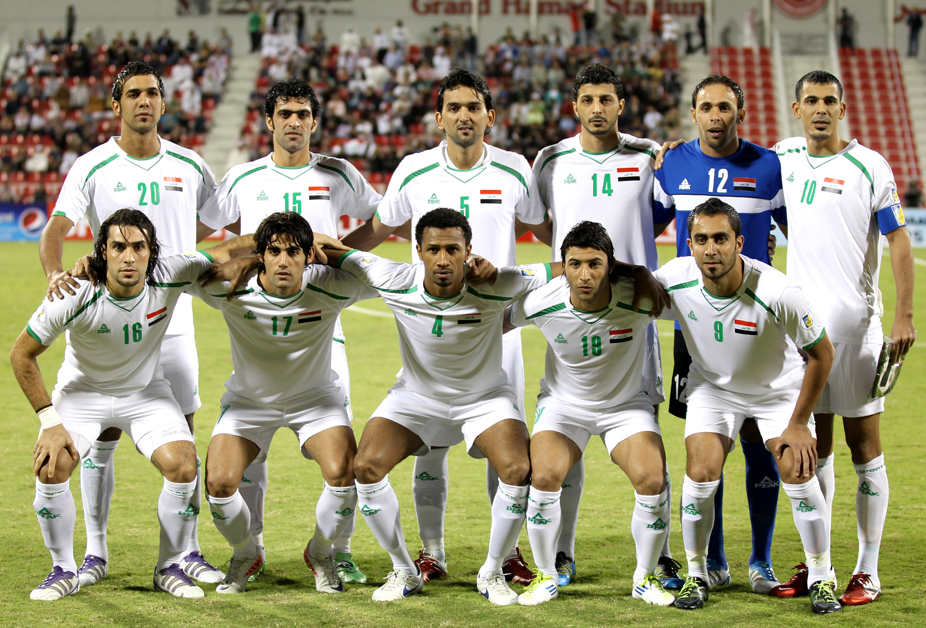 Members of the Iraqi national football team pose for a group picture.